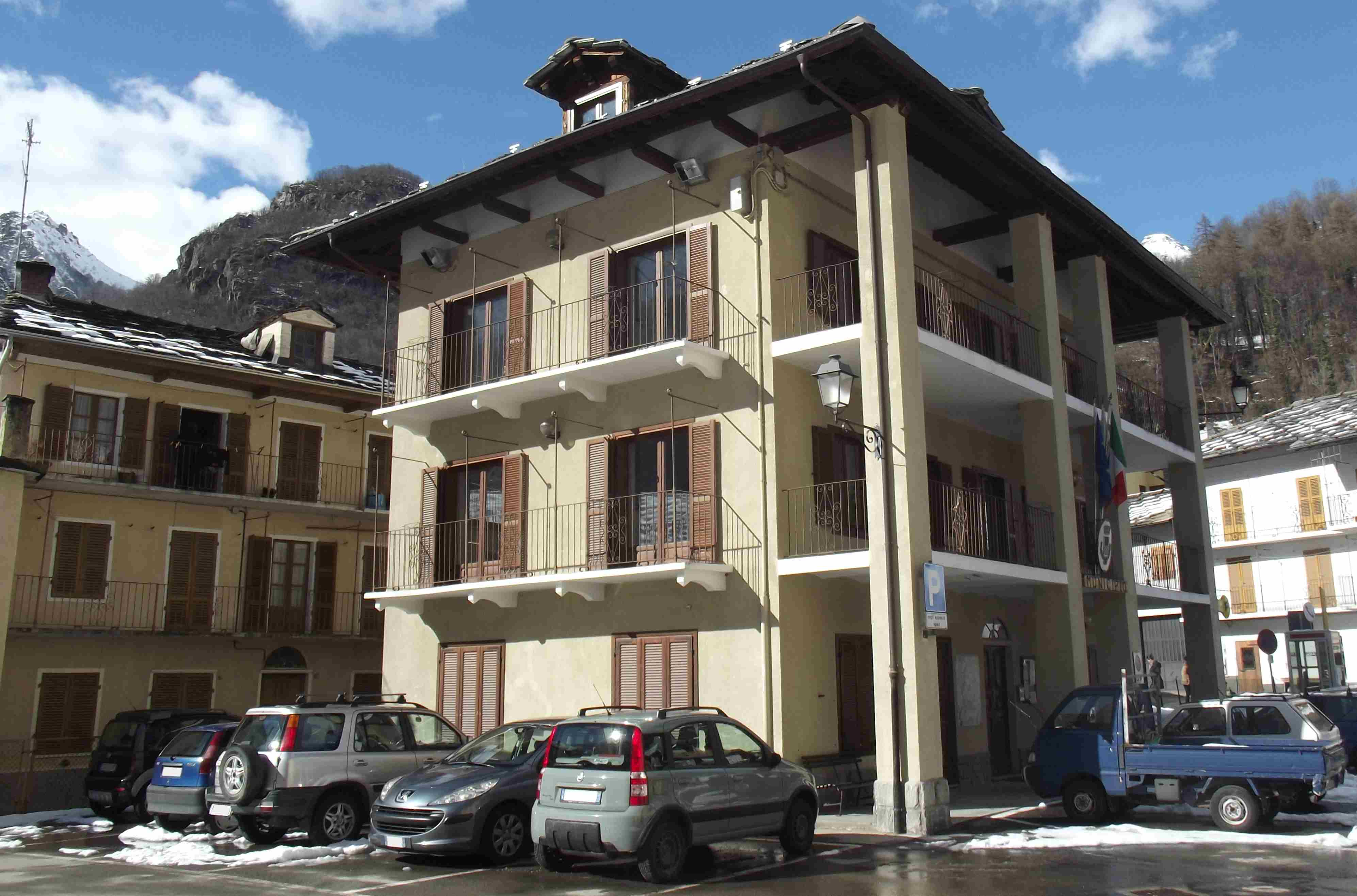 Lemie (TO, Italy): town hall